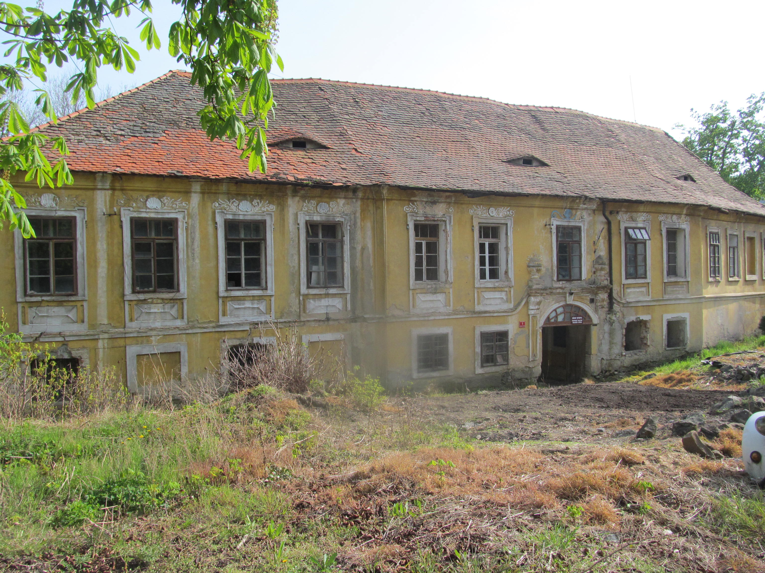 Castle in Boreč